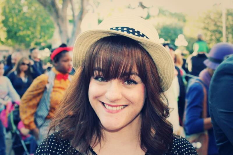 Natalie Hoover's profile gallery